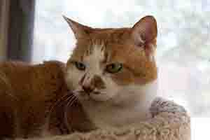 Highly compressed image of a cat.